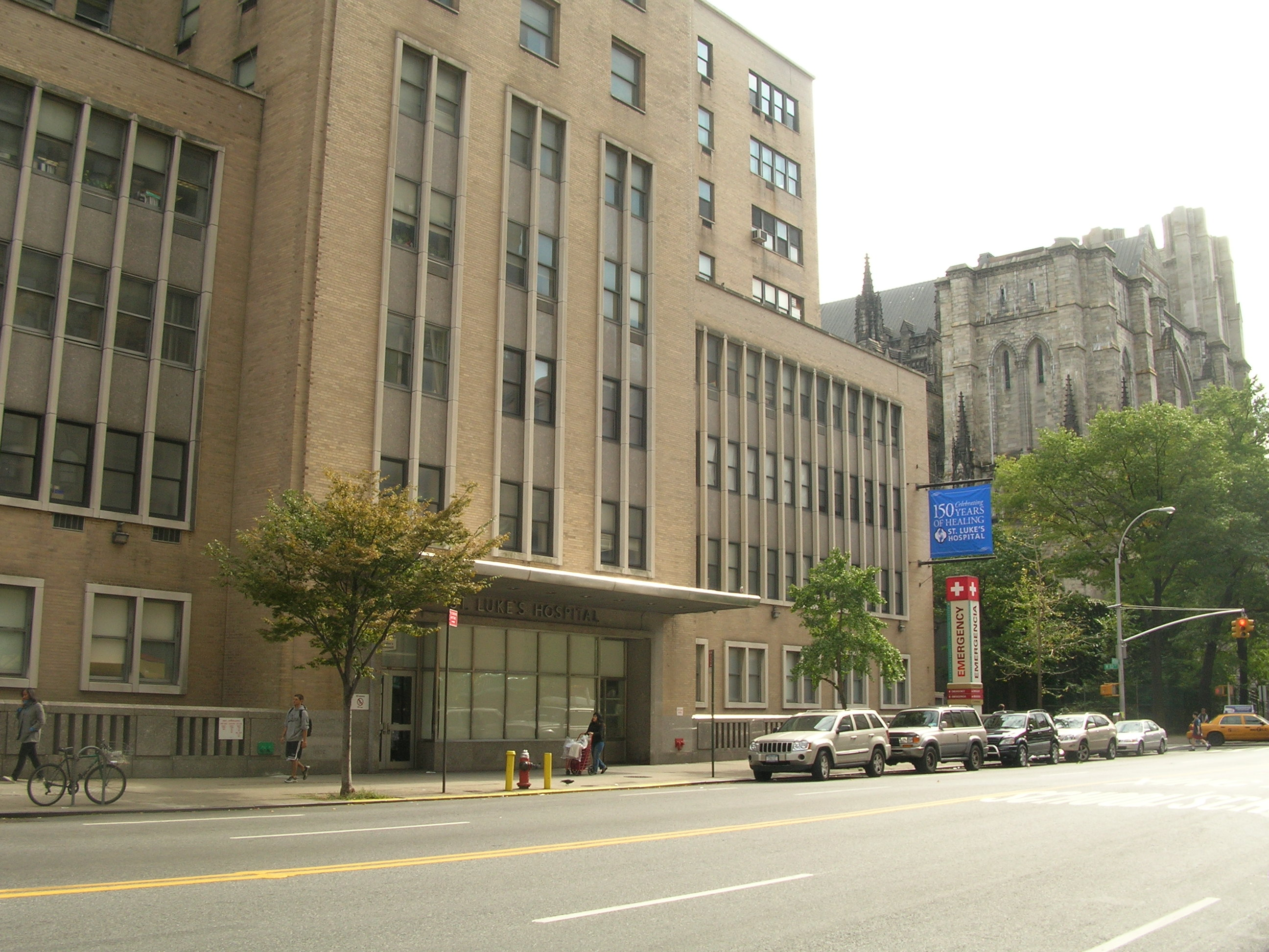 This photo is of Wikis Take Manhattan goal code A18, St. Luke's Hospital.